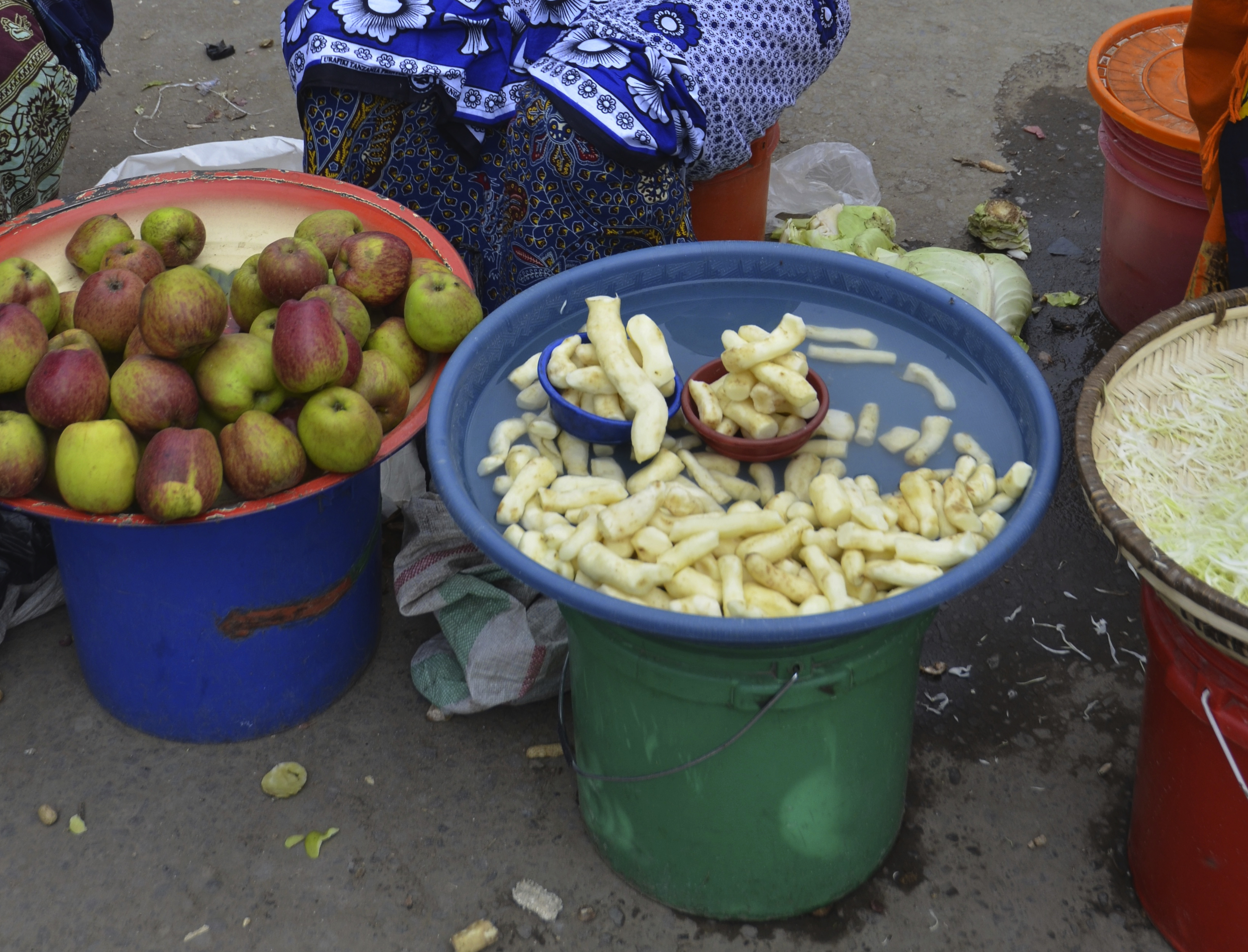 Picture taken in Mbeya, Tanzania.